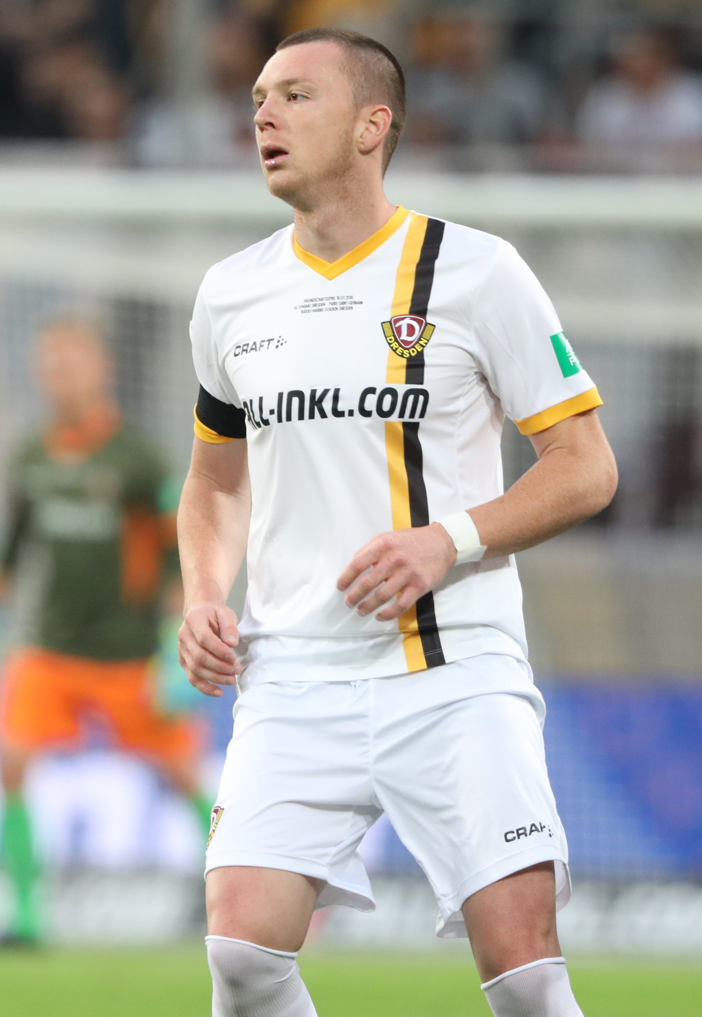 Test game, 17th July 2019: SG Dynamo Dresden vs. Paris Saint-Germain 1:6 (0:3)